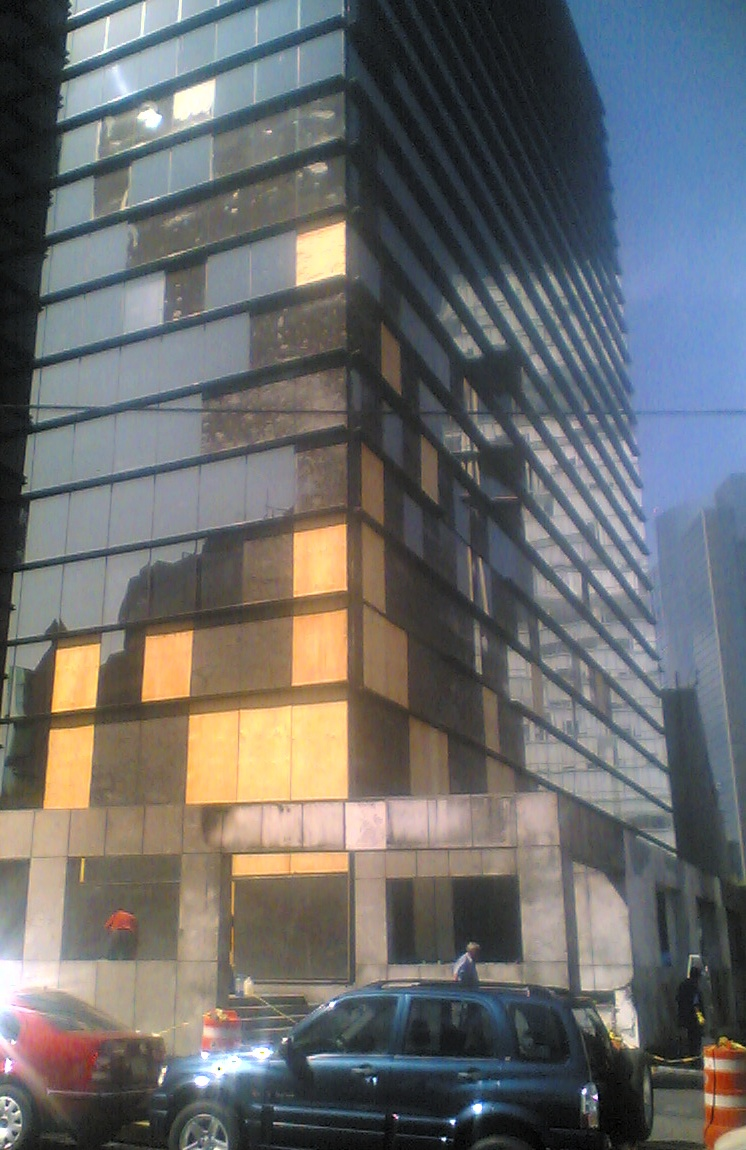 Building under repair from damage from airplane crash on November 4.